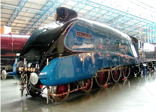 The Mallard at the National Railway Museum at York.